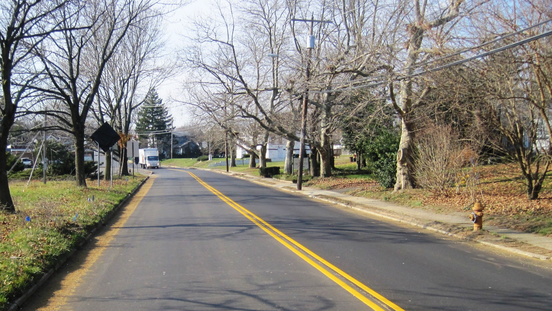 Photo of River Plaza, New Jersey, an unincorporated community within Middletown Township. Photo taken looking west along West Front Street between Applegate Street and Hubbard Avenue.